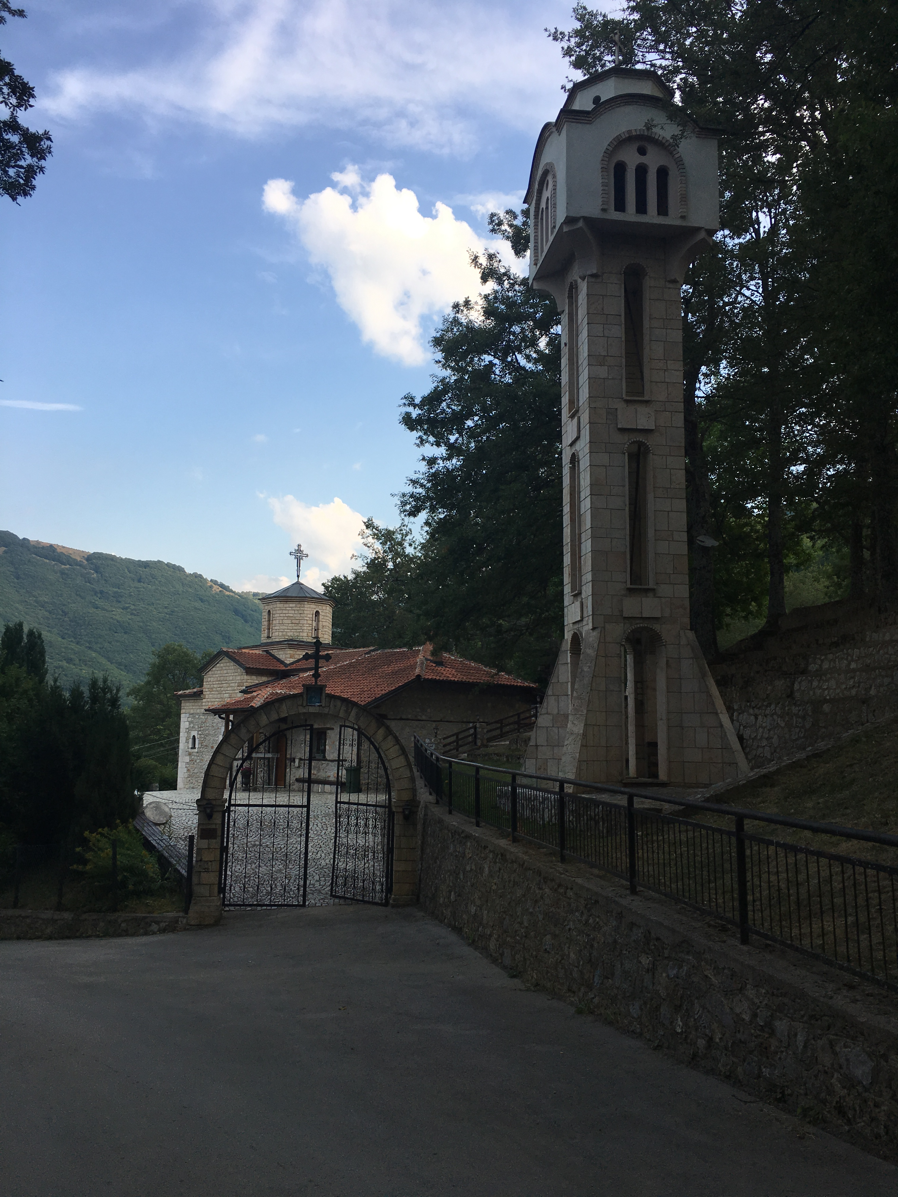 Skrebatno Monastery